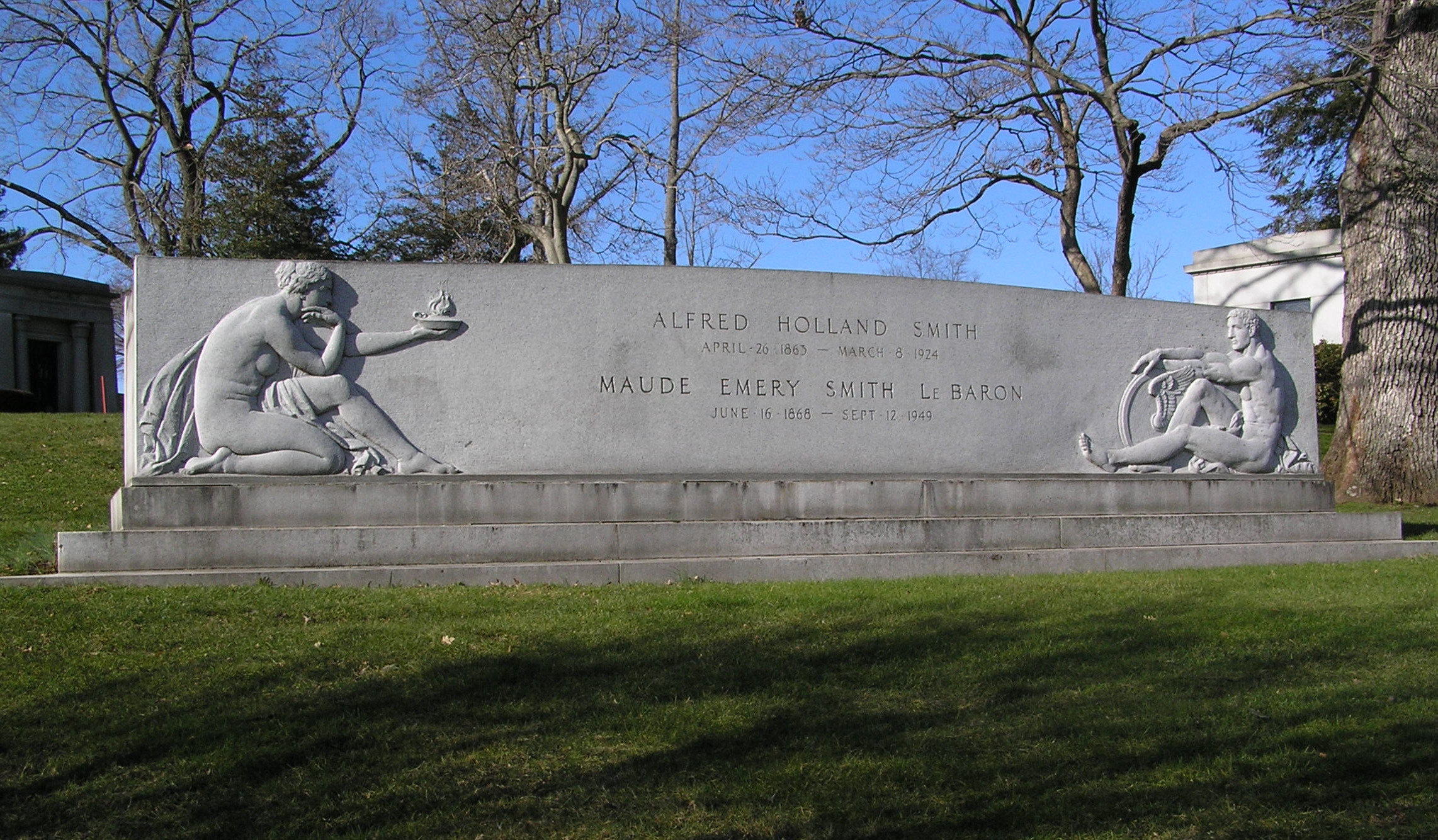 The gravesite of Alfred Holland Smith in Kensico Cemetery